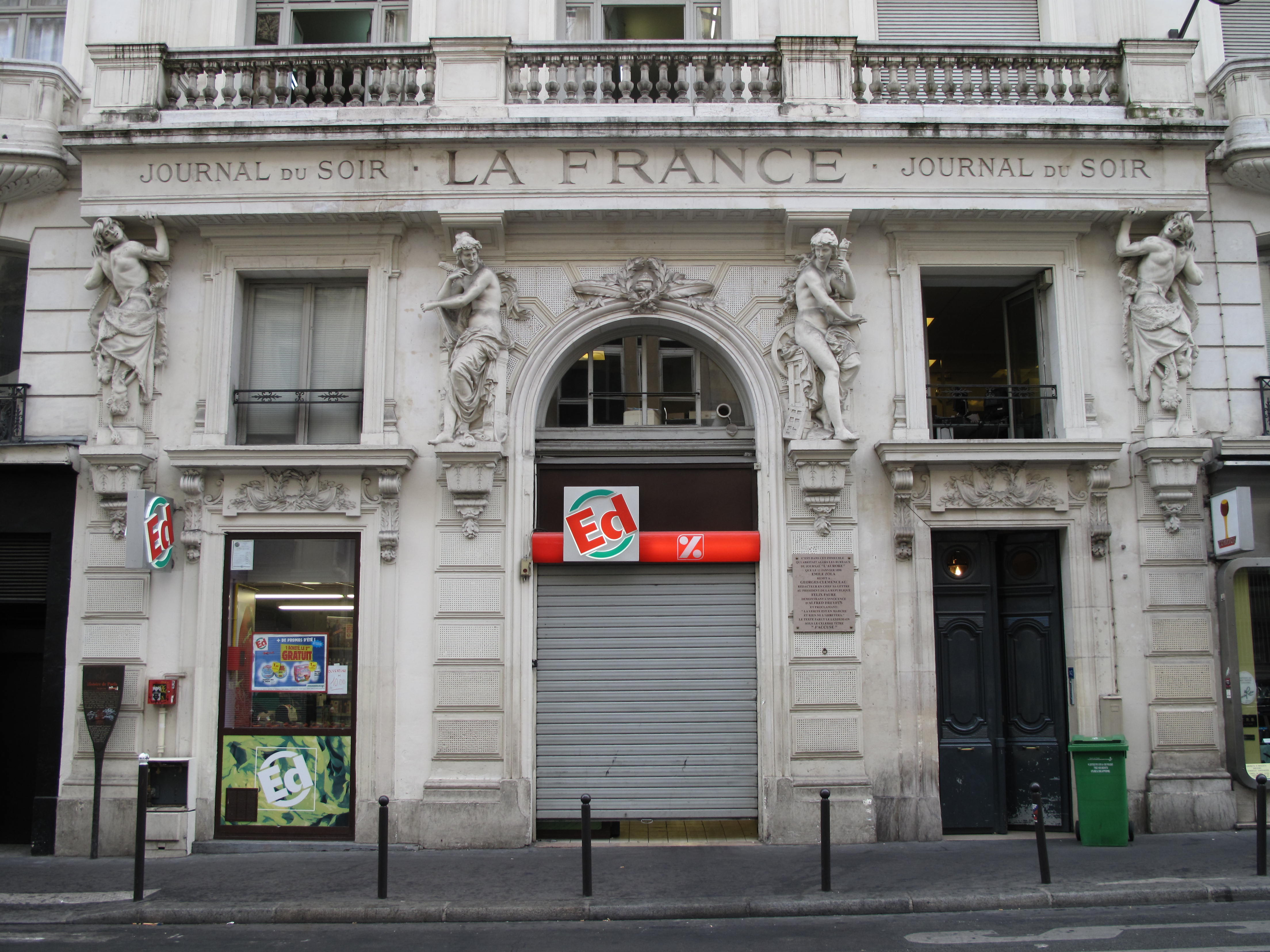 Details of the building where several newspapers were printed, including L'Aurore and La France : 142, rue Montmartre, Paris 2nd arr. Atlantes by Louis Alexandre Lefèvre-Deslongchamps (1849-1893), caryatides by Ernest Hiolle (1834-1886) symbolize Journalism and Typography.